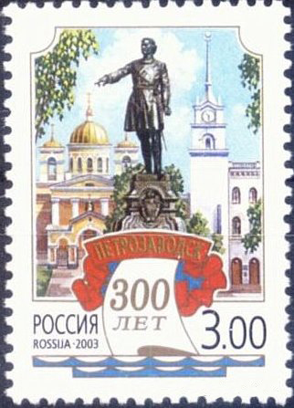 Stamps of Russia. The 300th anniversary of Petrazovodsk, 2003